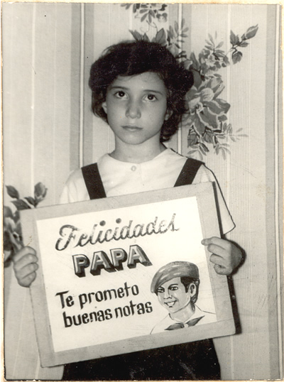 Yoani Sánchez as a child holding sign